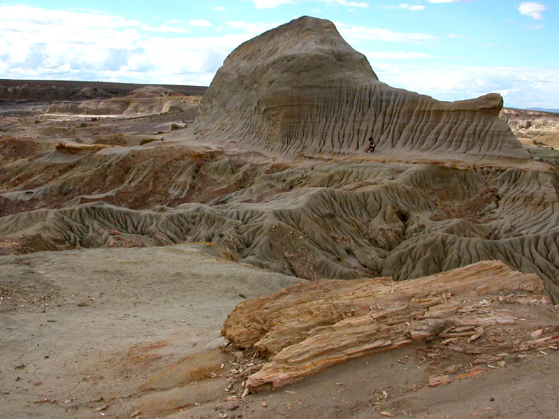 Petrified wood from the Cretaceous-Paleogene of Chubut, Argentina